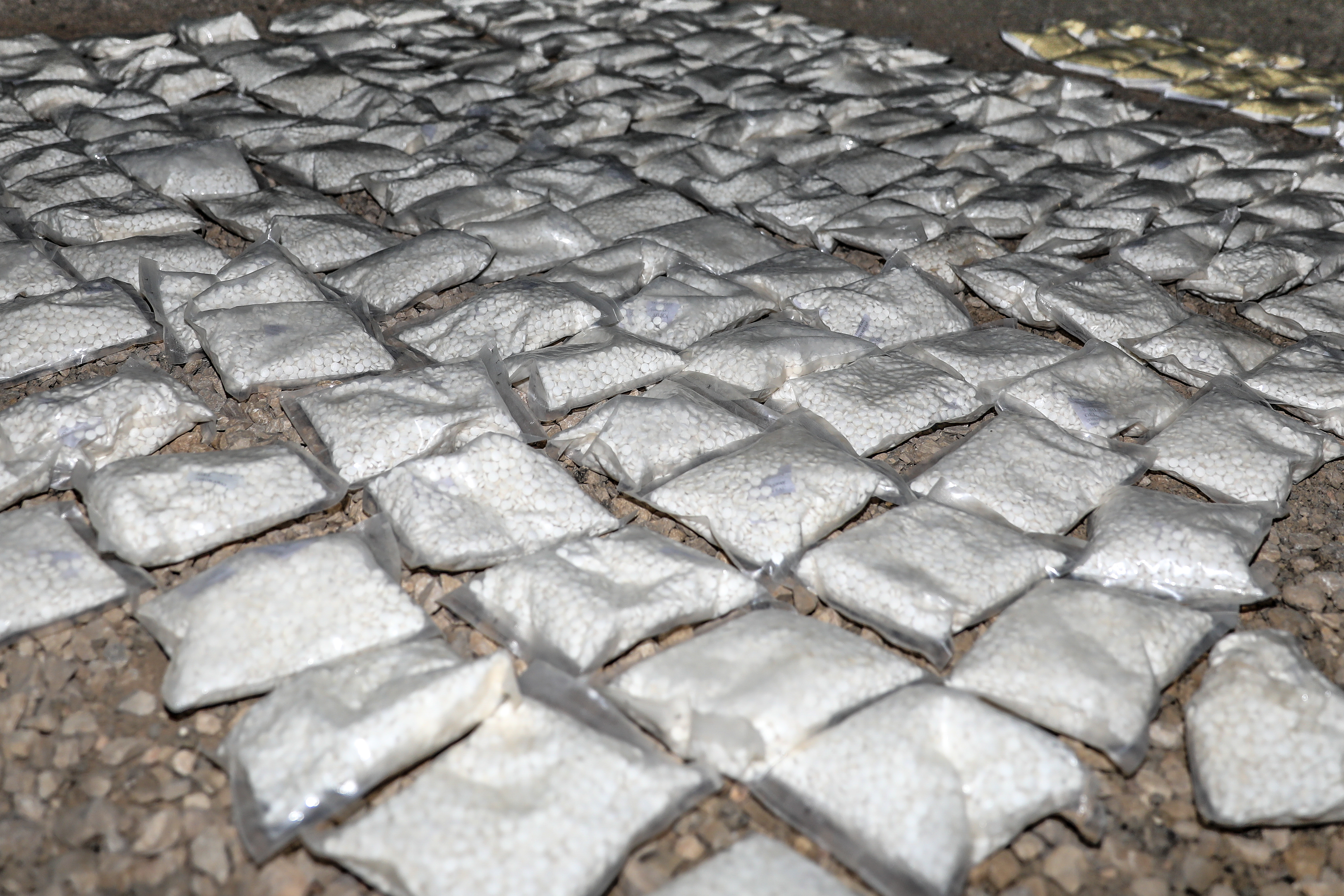 Over 127 plastic bags filled with an addictive drug called Captagon lie ready for destruction after being seized by U.S. and Coalition partners in Southern Syria, May 31, 2018. Captagon is commonly known and used by ISIS terrorists, and informally referred to as the “jihadists’ drug”. CJTF-OIR is the global Coalition to defeat ISIS in Iraq and Syria.